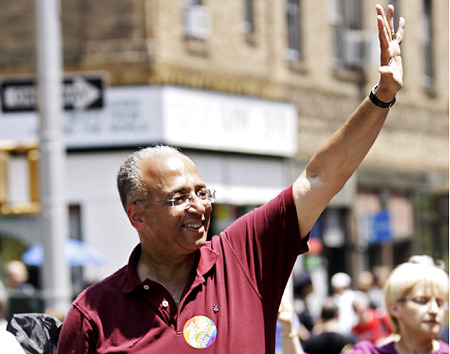 Bill Thompson